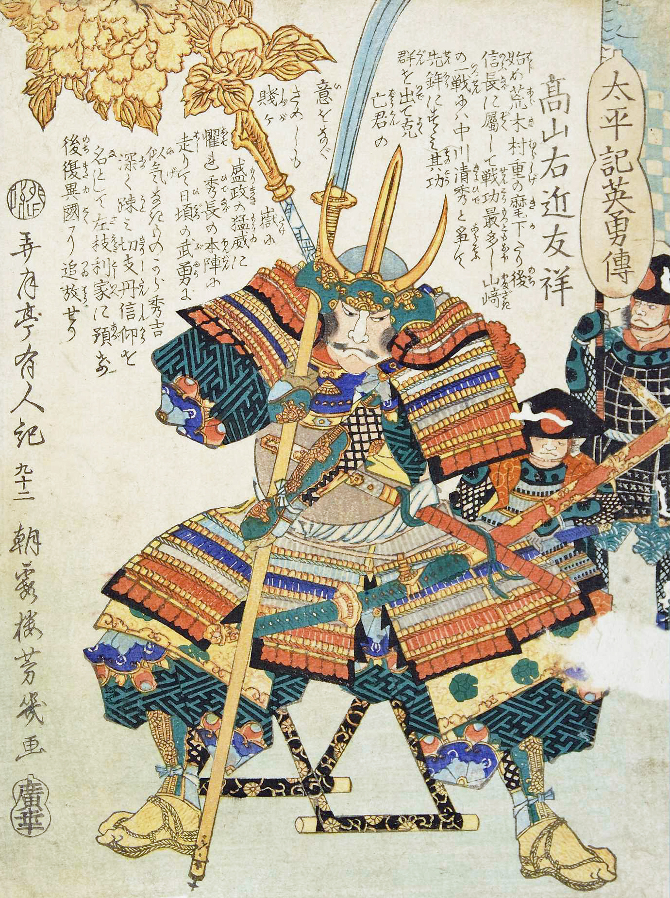 Takayama Ukon was a Japanese Catholic kirishitan daimyō and samurai who lived during the Sengoku period.